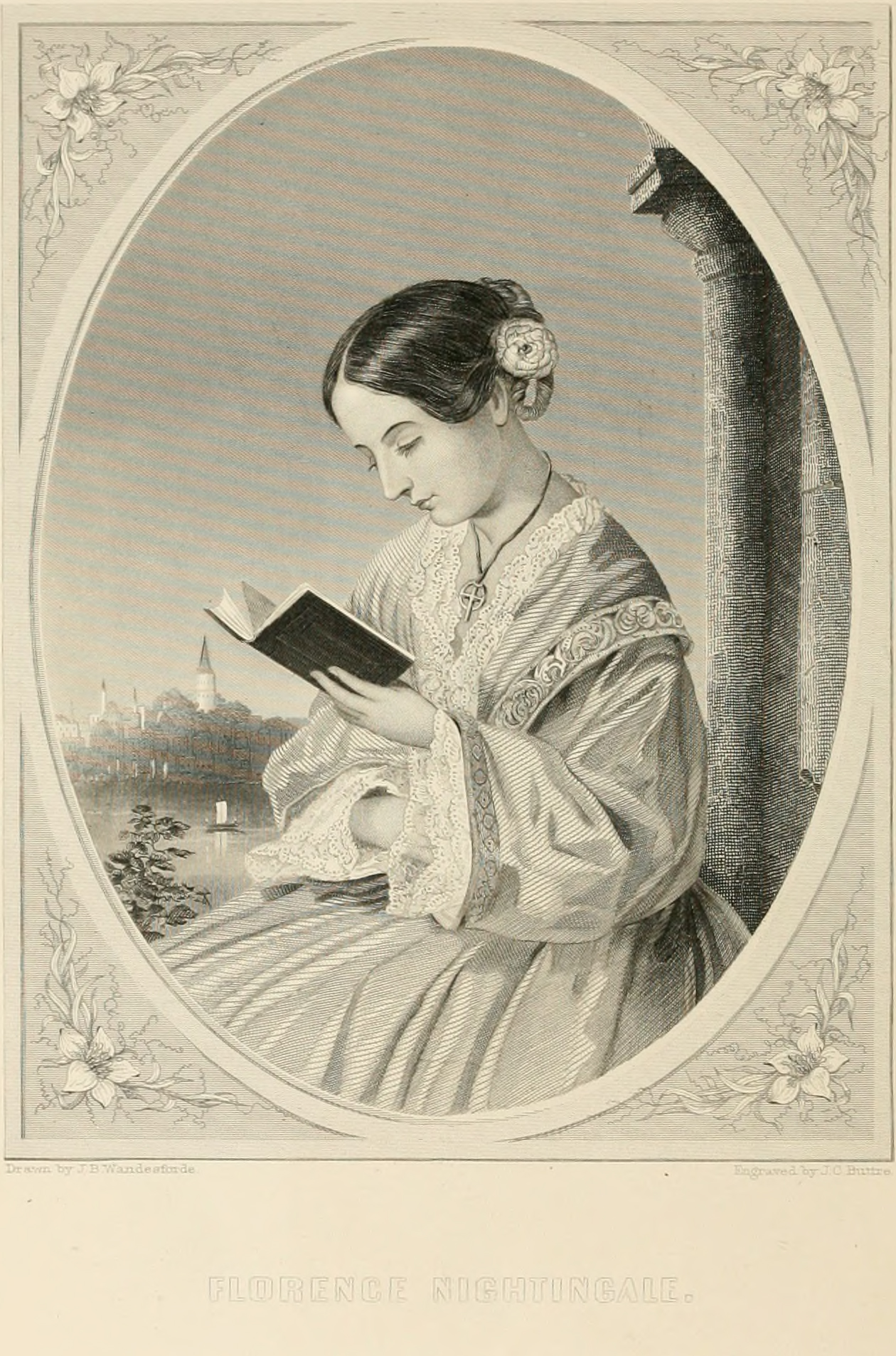 Plate from the book "Portraits of celebrated women, with brief biographies, edited by Rev. D.W. Clark". Portrait of young Florence Nightingale, captioned beneath with her name, with artist and engraver credits.